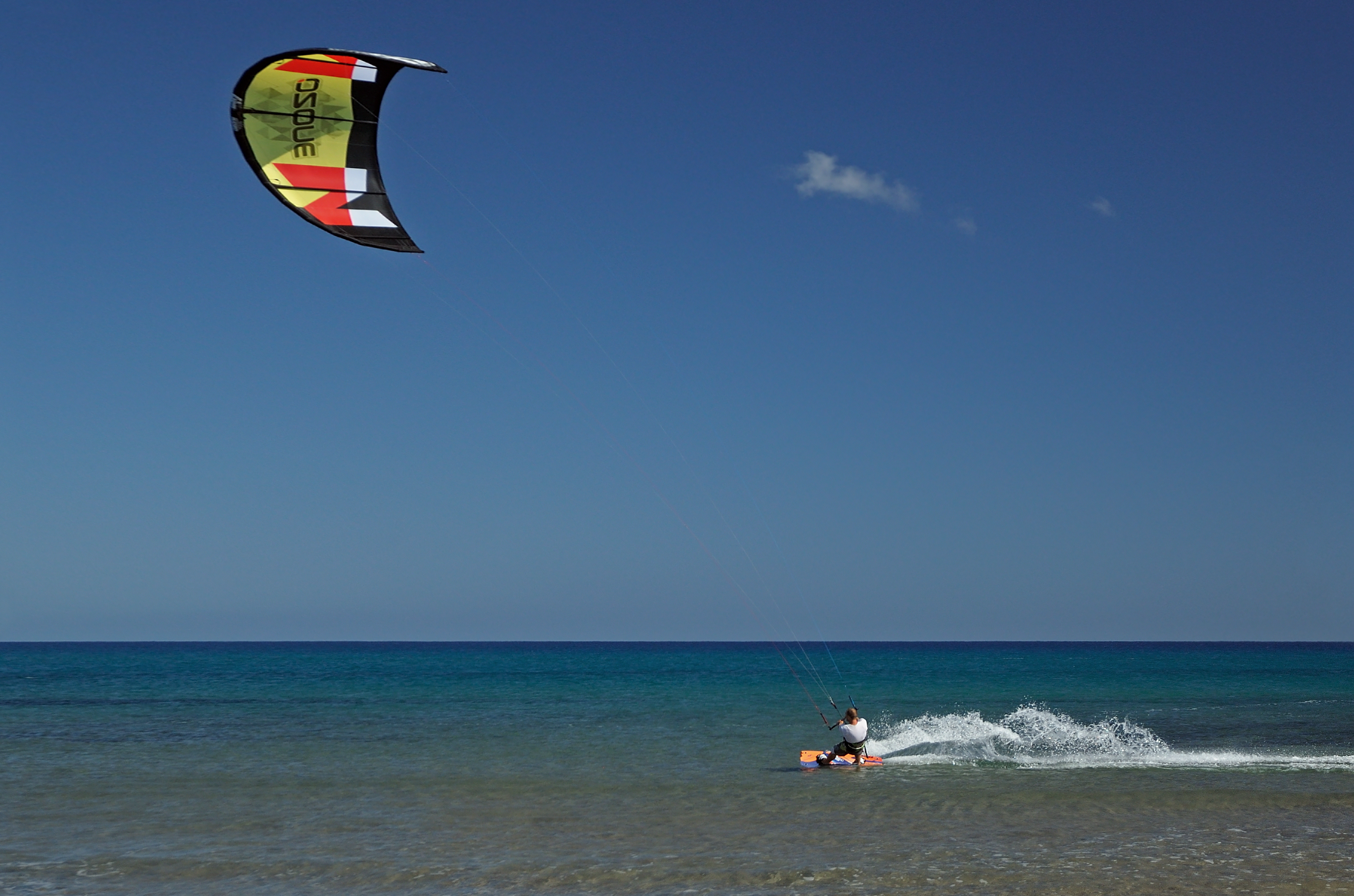 Kitesurfing near Prasonisi. Rhodes, Greece